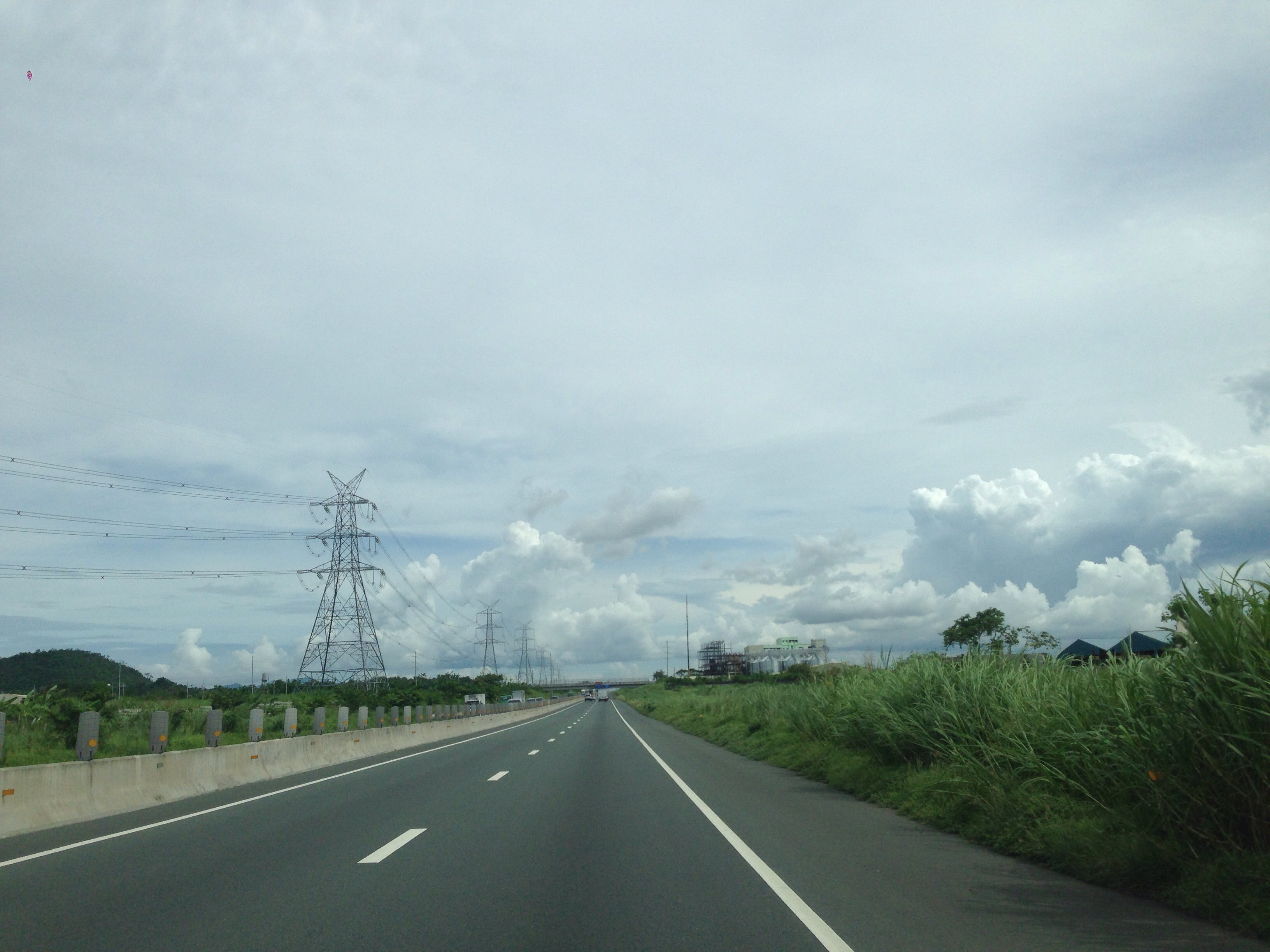 The Calamba–Santo Tomas segment of South Luzon Expressway looking south near Mount Makiling